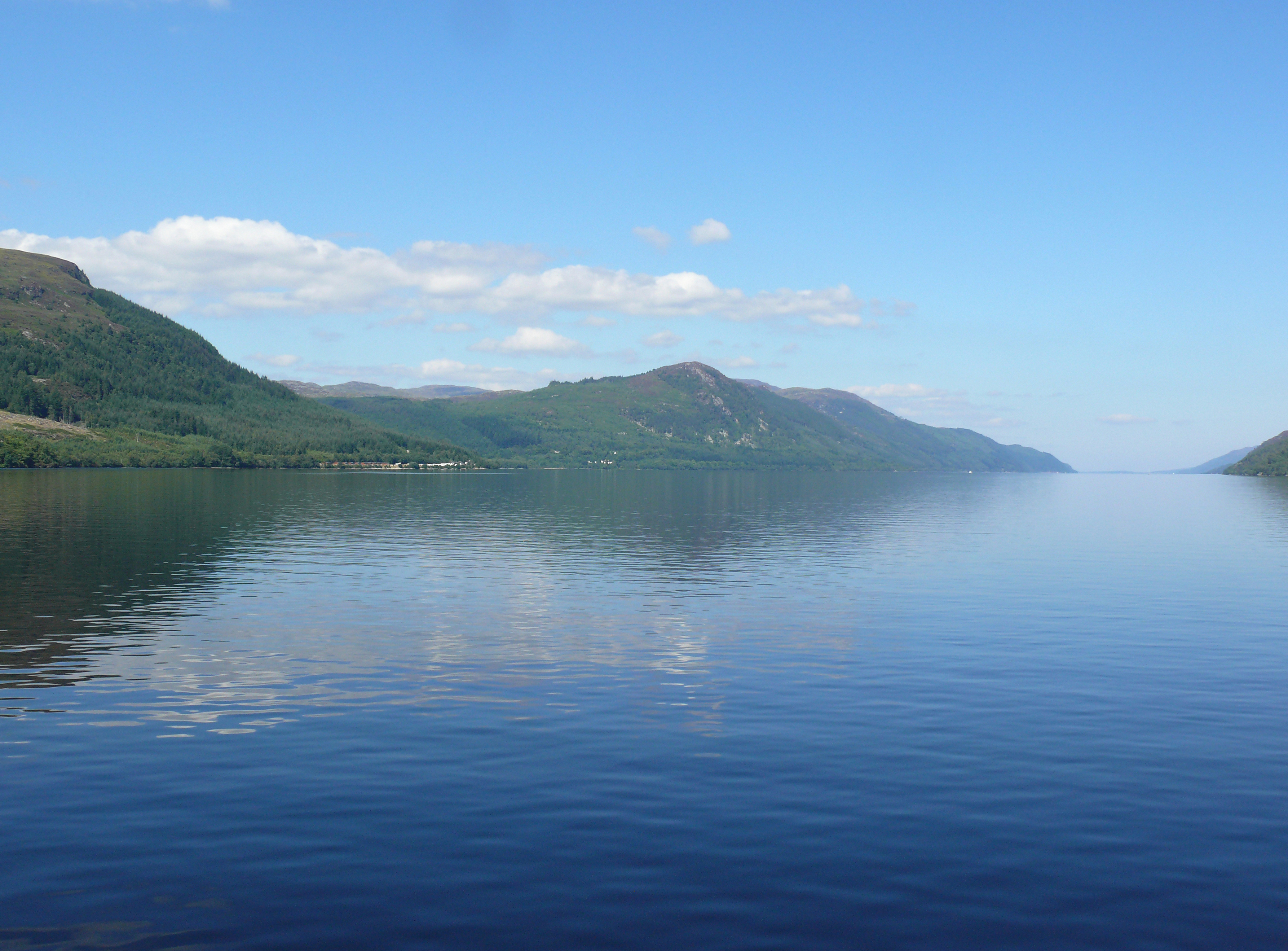 Loch Ness], near Fort Augustus.